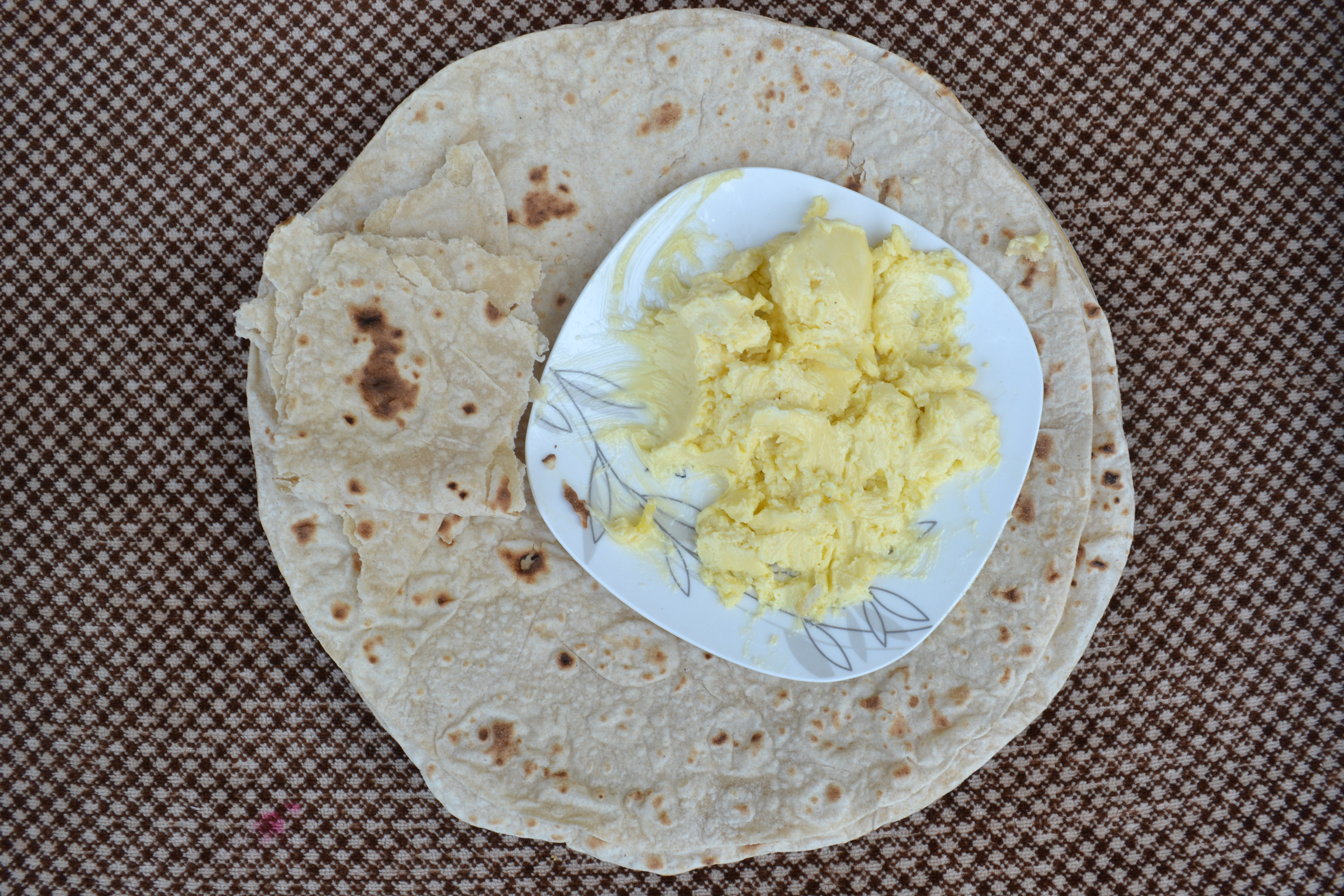 Brumhanik is a traditional Hunza dish. It is offered to guests usually. It is a Brushuski word and it means white food. It consists of bread and butter. The butter is made in goatskin.